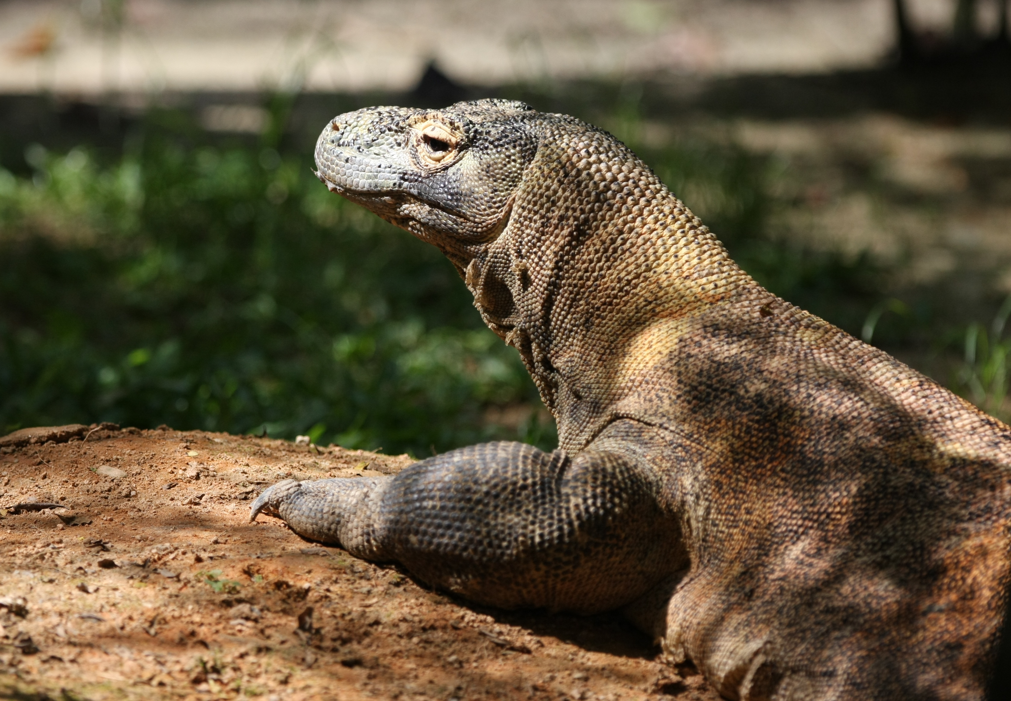 A Komodo dragon (Varanus komodoensis) in the Singapore Zoo.